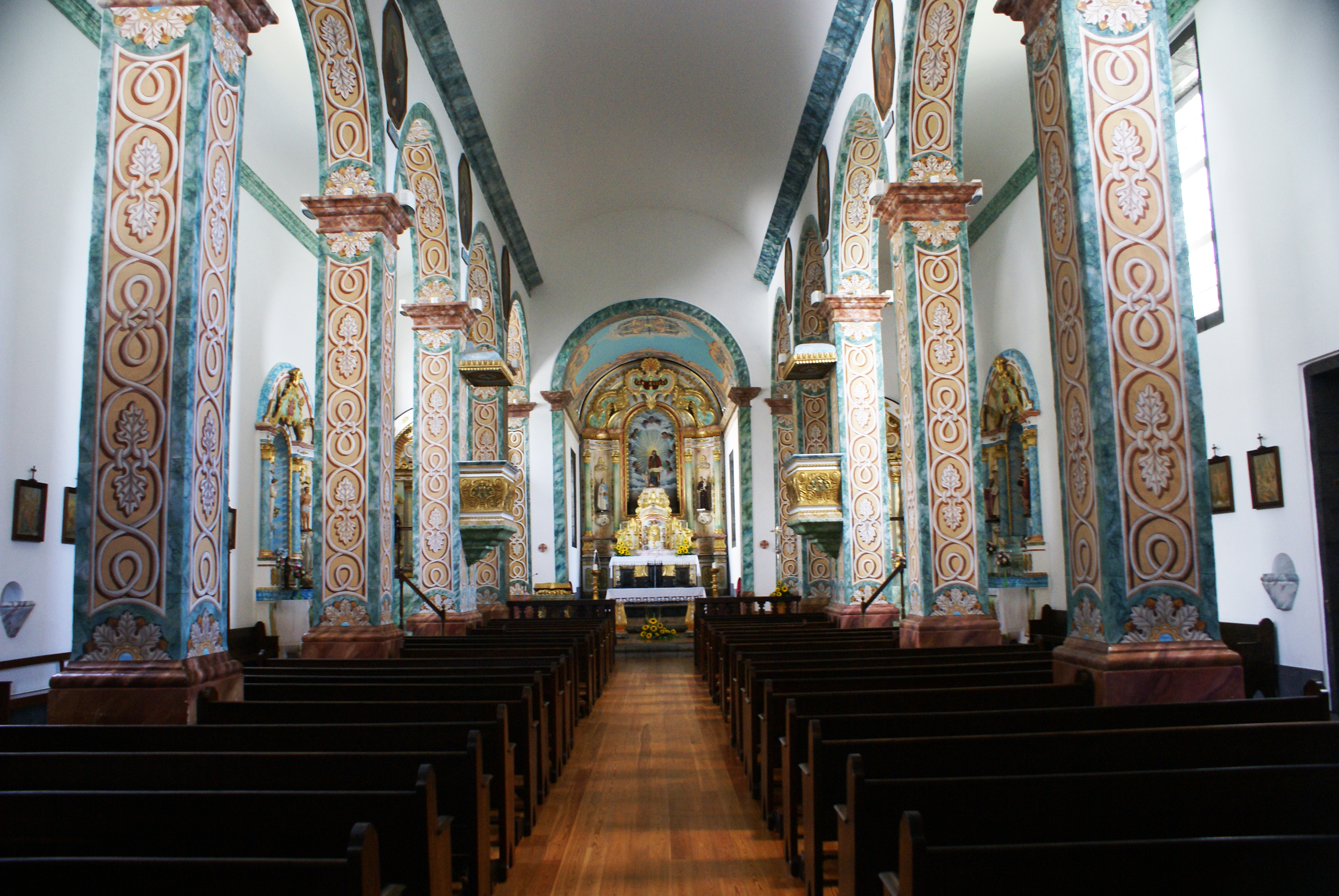 Nave of the Church of São Mateus, São Mateus, Madalena, Pico (Azores), Portugal